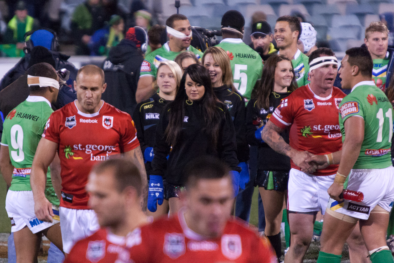 Matt Cooper